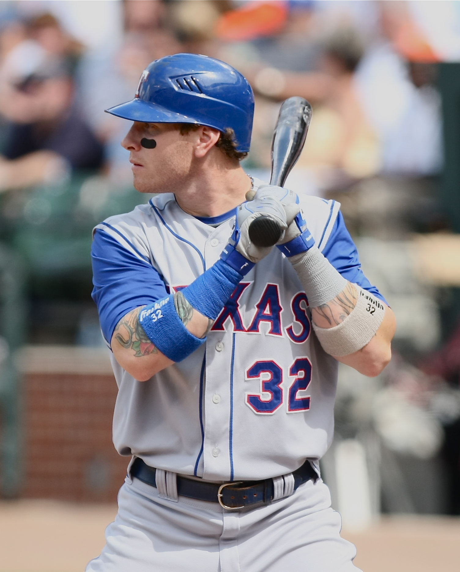 photo of Josh Hamilton playing.